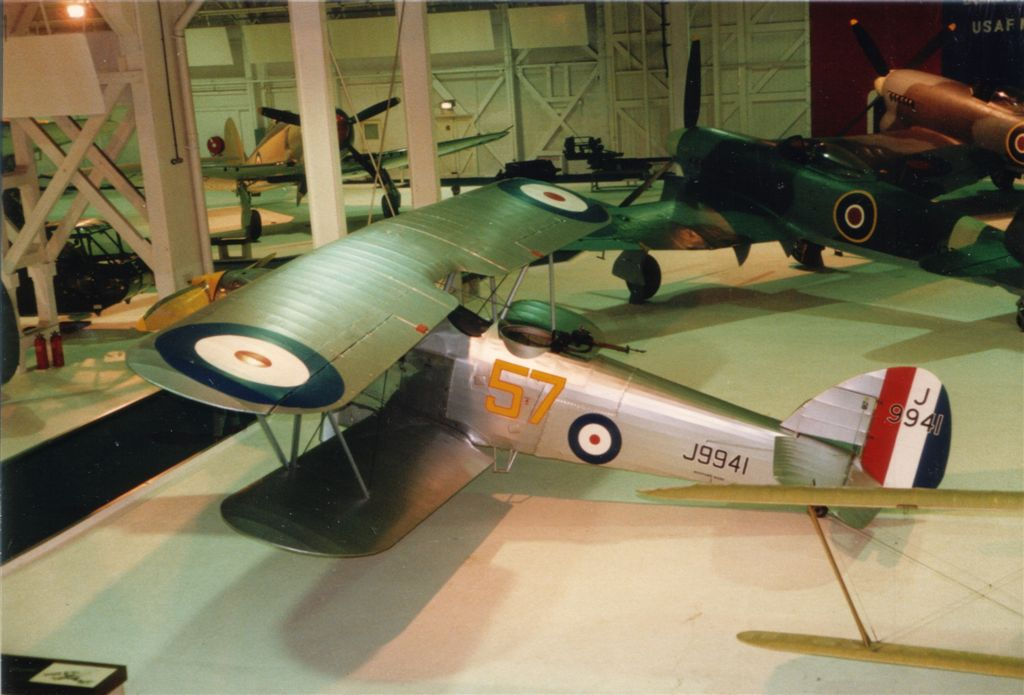 Hendon, RAF Museum London: the Hawker Hart J9941 displayed into museum.